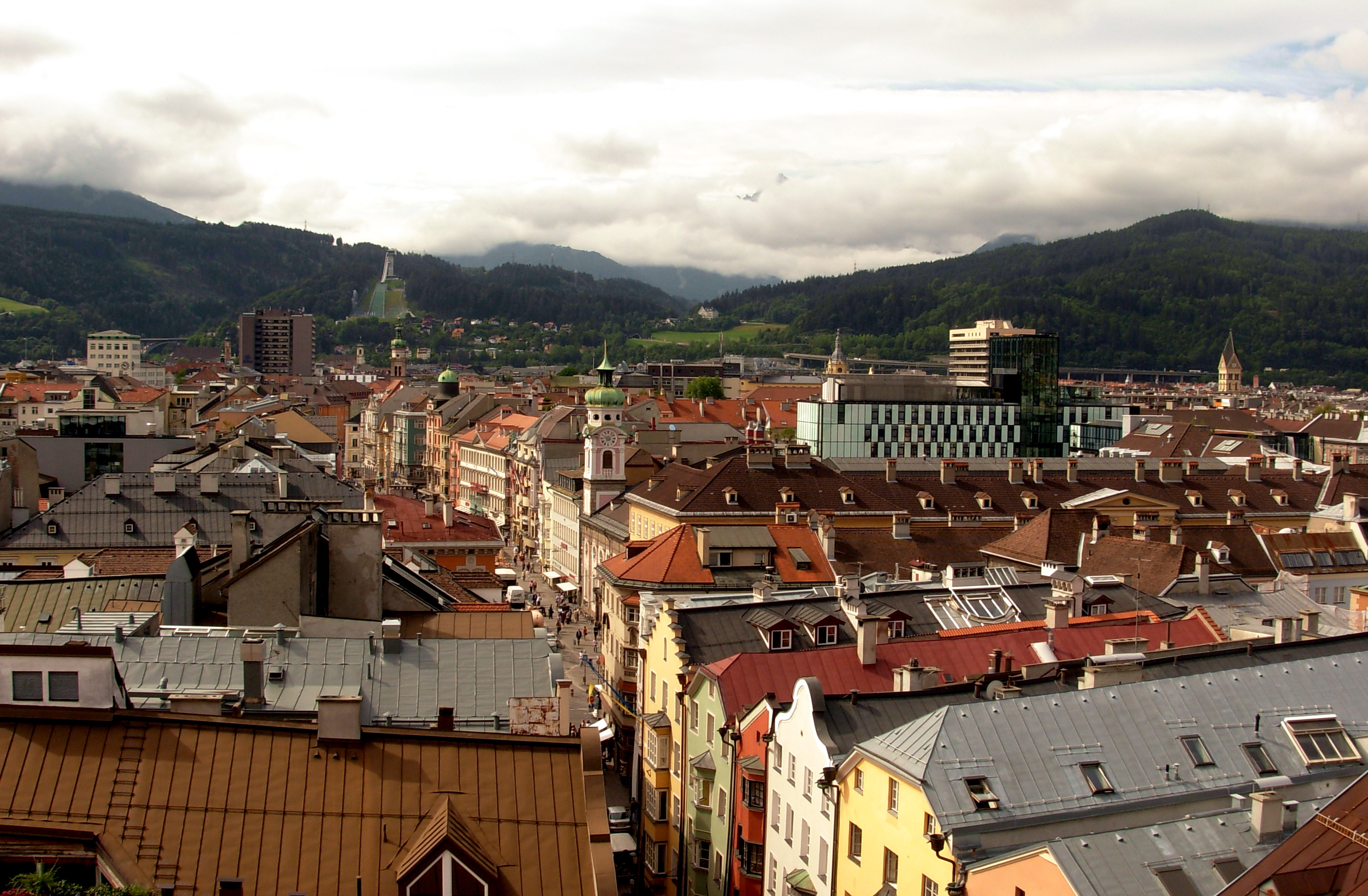 Innsbruck panorama